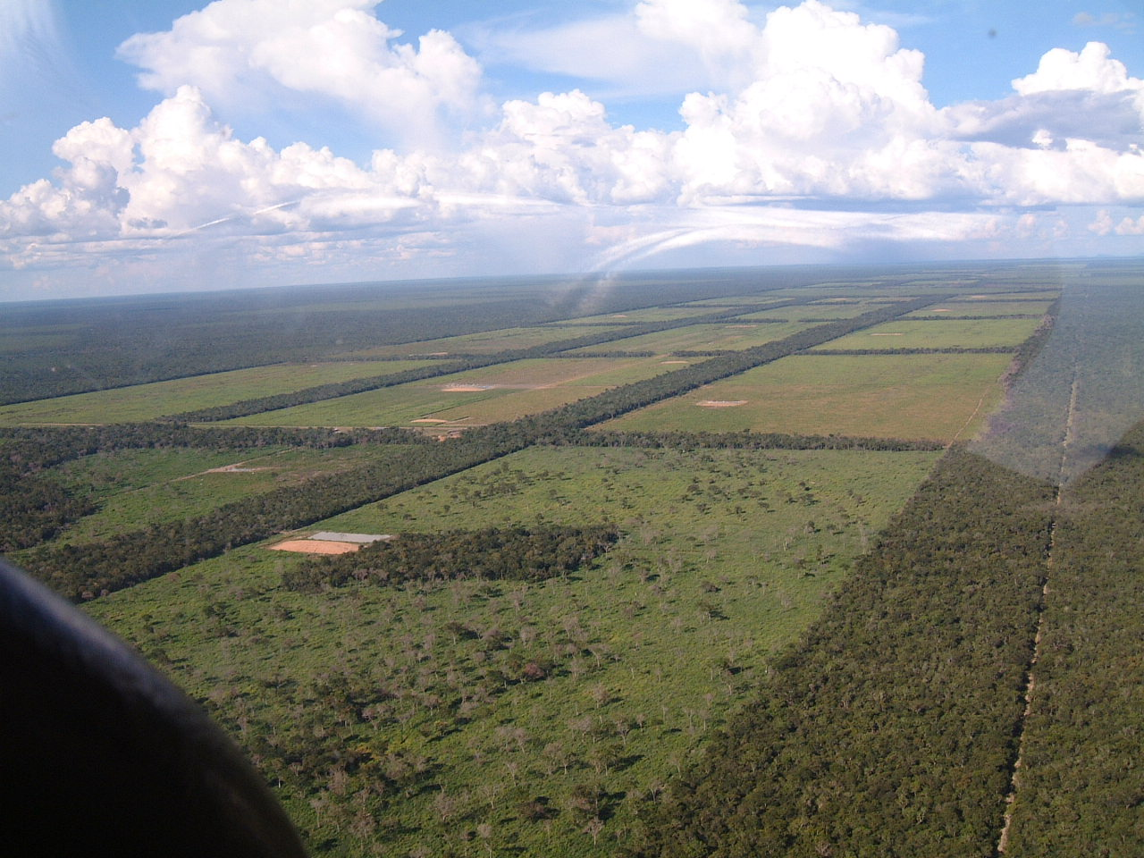 advance of agriculture, northern Paraguay Chaco